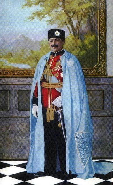 Amanullah Khan, King of Afganistan from 1919 to 1929.